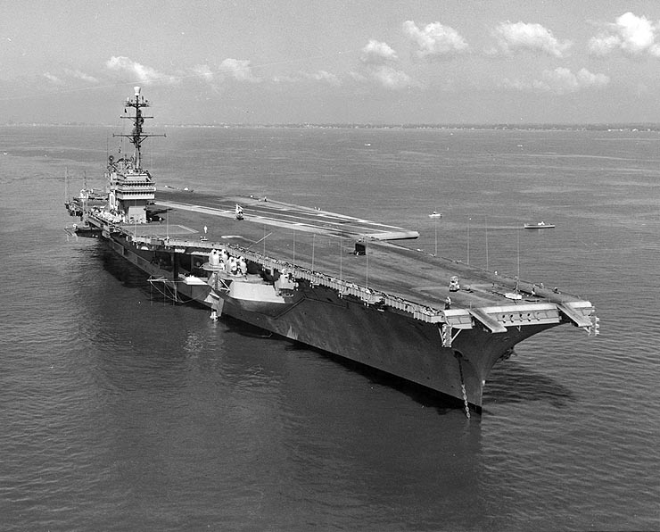 The U.S. Navy aircraft carrier USS Saratoga (CVA-60) at her anchorage in Hampton Roads, Virginia (USA), during the International Naval Review, 12 June 1957.